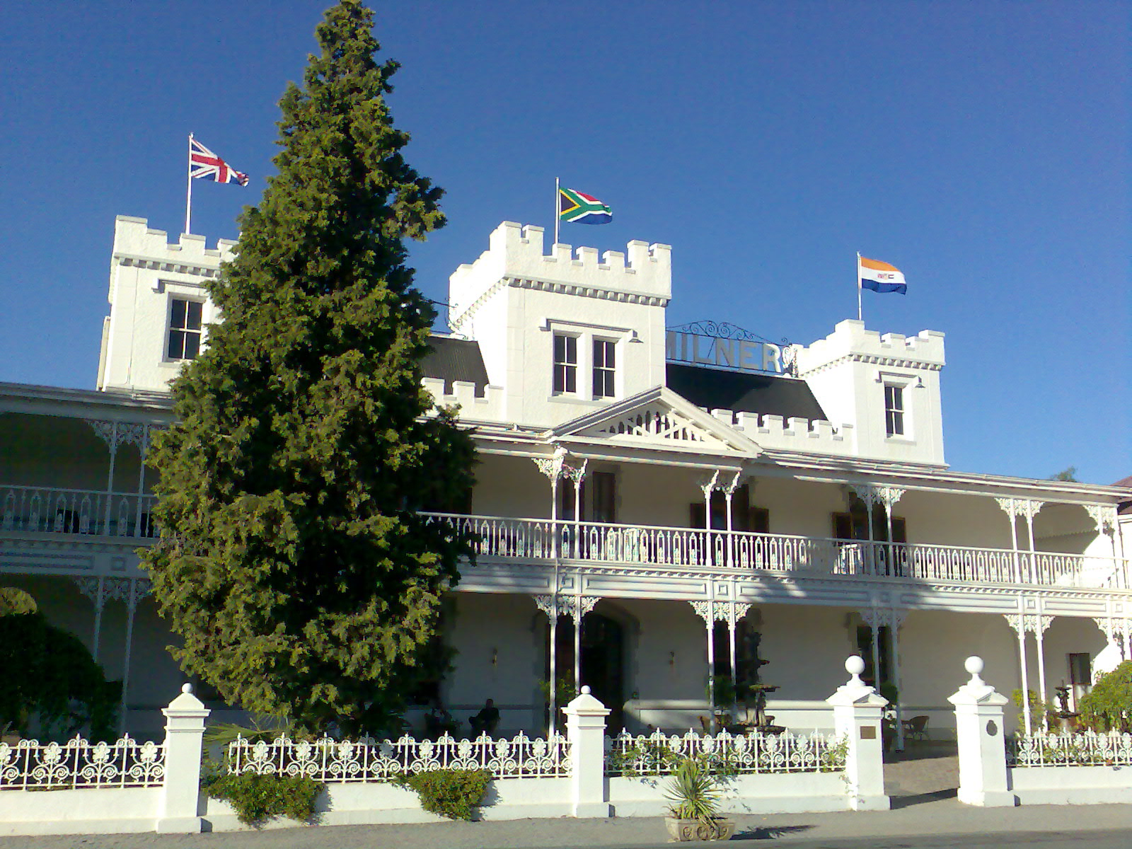 Lord Milner Hotel at Matjiesfontein (Western Cape) Author: Gregorydavid 19:53, 10 January 2007 (UTC)